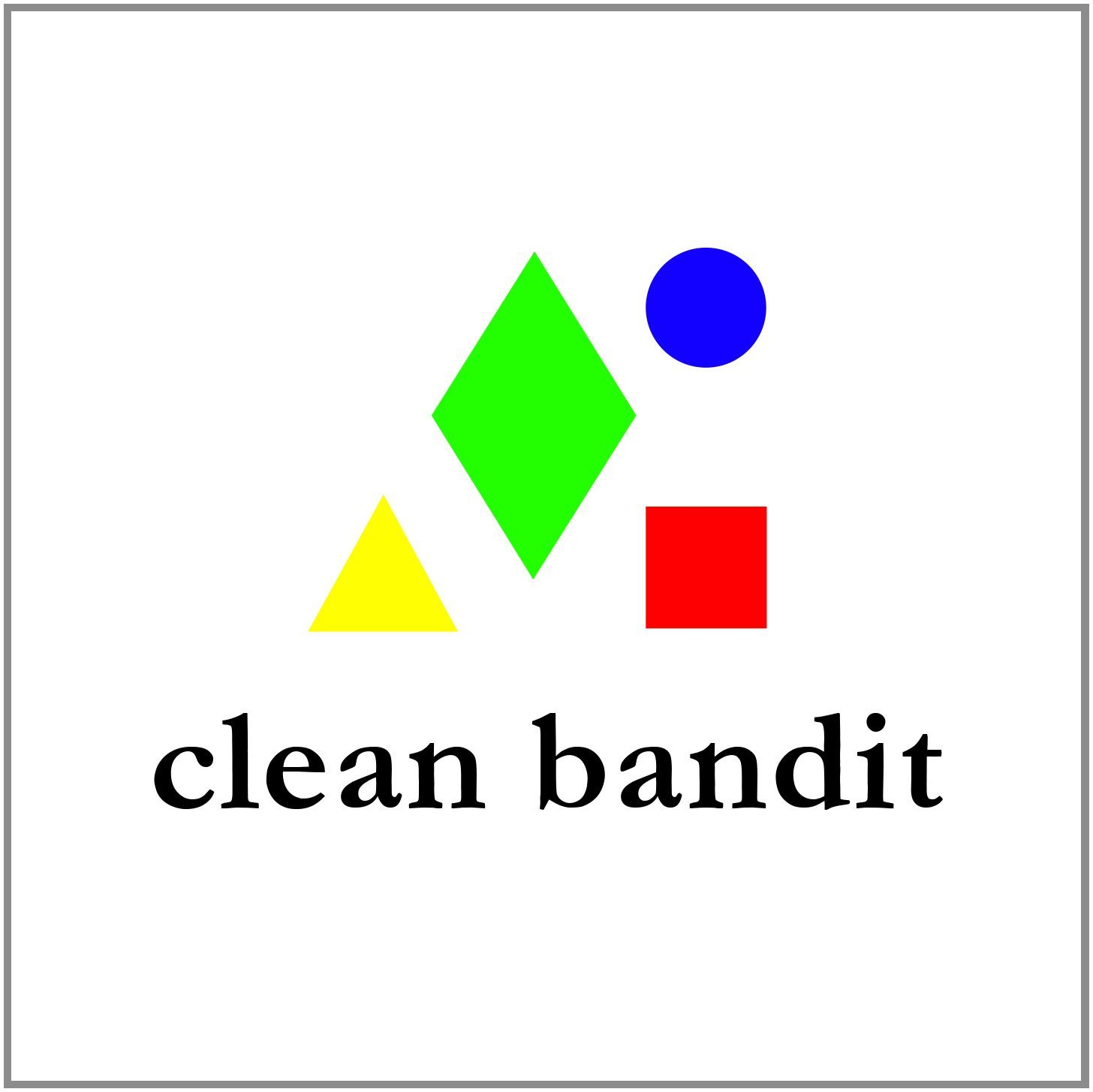 Alternate cover for Clean Bandit album